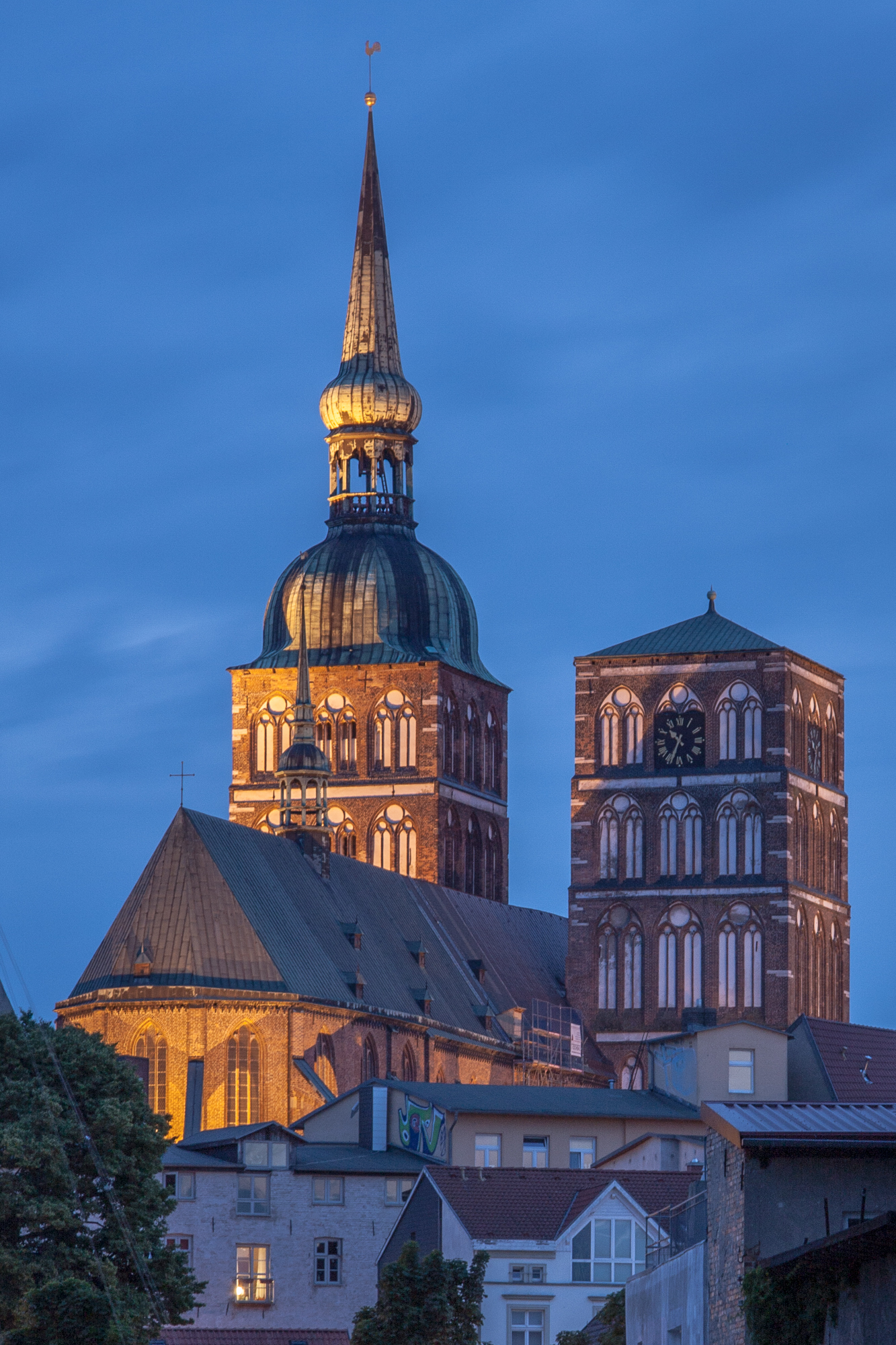 Nikolaikirche Stralsund during the Blue hour